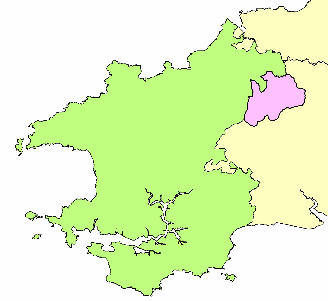 Map showing the location of Llanfyrnach Rural District, Pembrokeshire, Wales